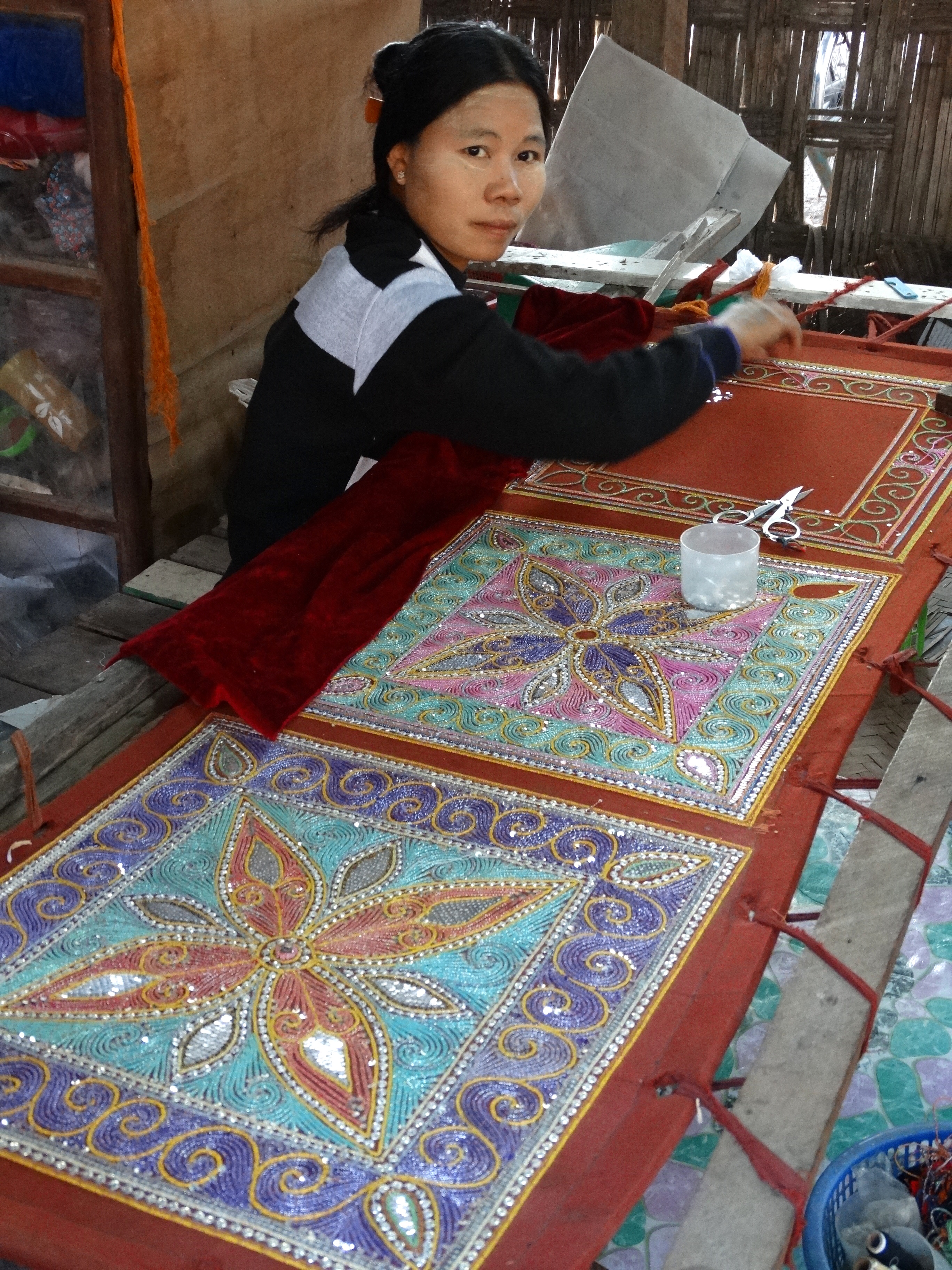 Woman Works on Fine Embroidery - Mandalay - Myanmar (Burma).